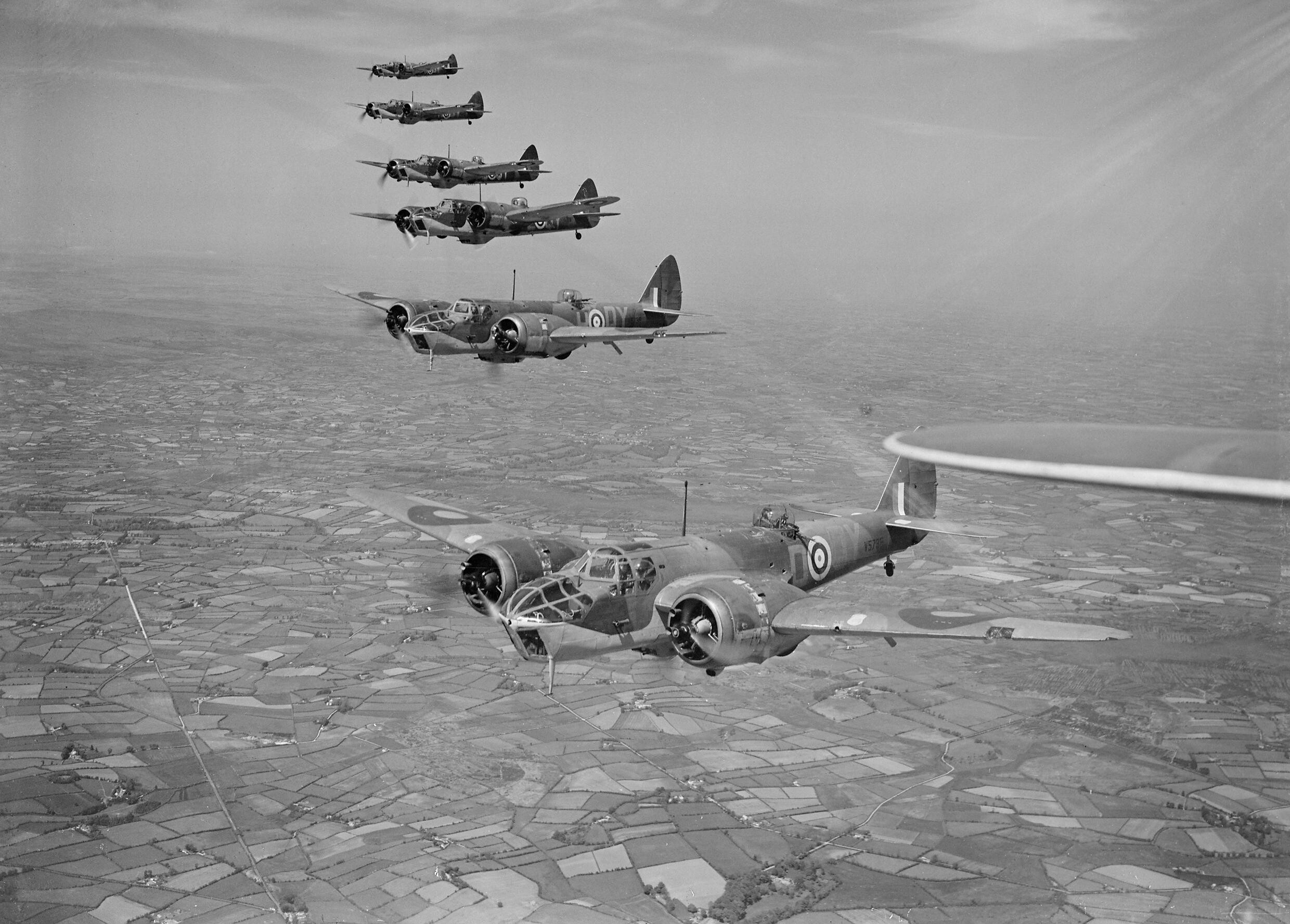 Bristol Blenheim Mk IVFs of No. 254 Squadron RAF flying from Aldergrove in Northern Ireland, May 1941. Six Blenheim Mark IVFs of No. 254 Squadron RAF, flying in formation over Northern Ireland shortly after the unit’s arrival at Aldergrove, County Antrim.